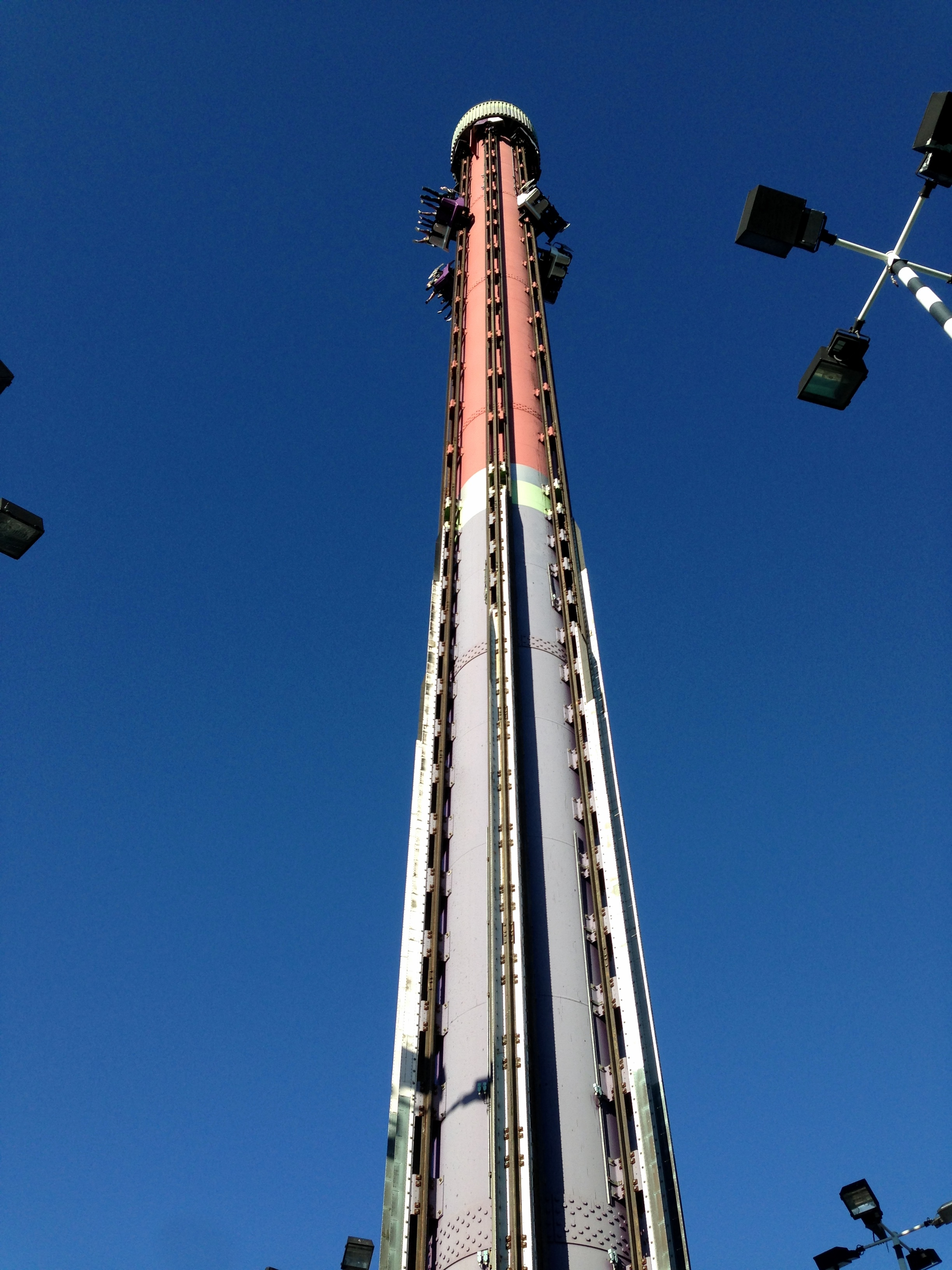 California's Great America